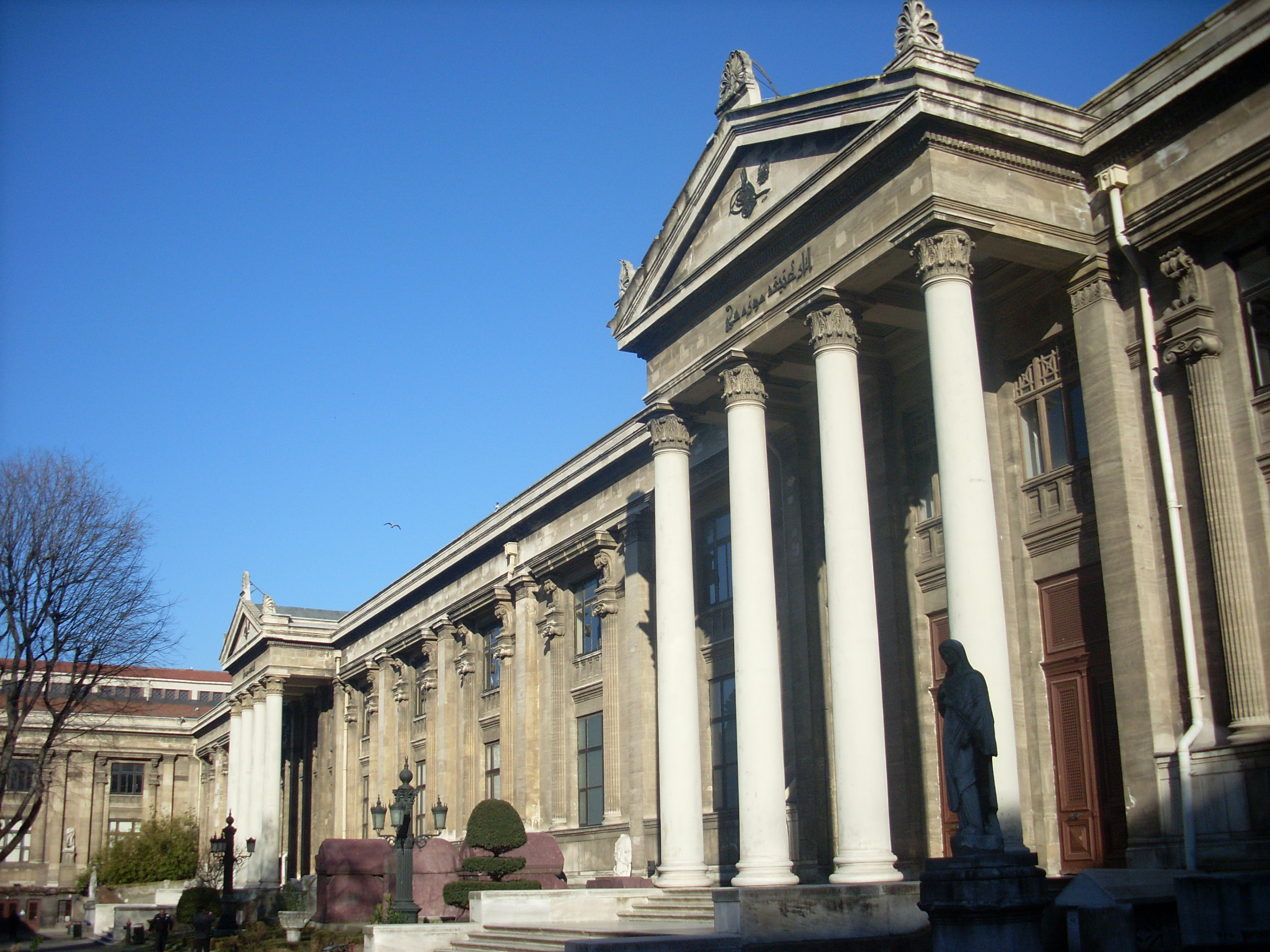 Istanbul Archaeological Museums main building Mar 2013